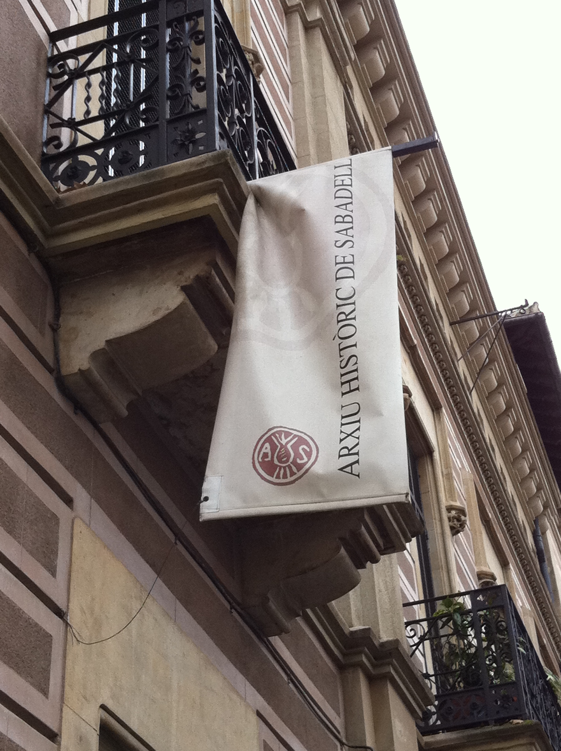 Historical Archive of Sabadell, Catalonia